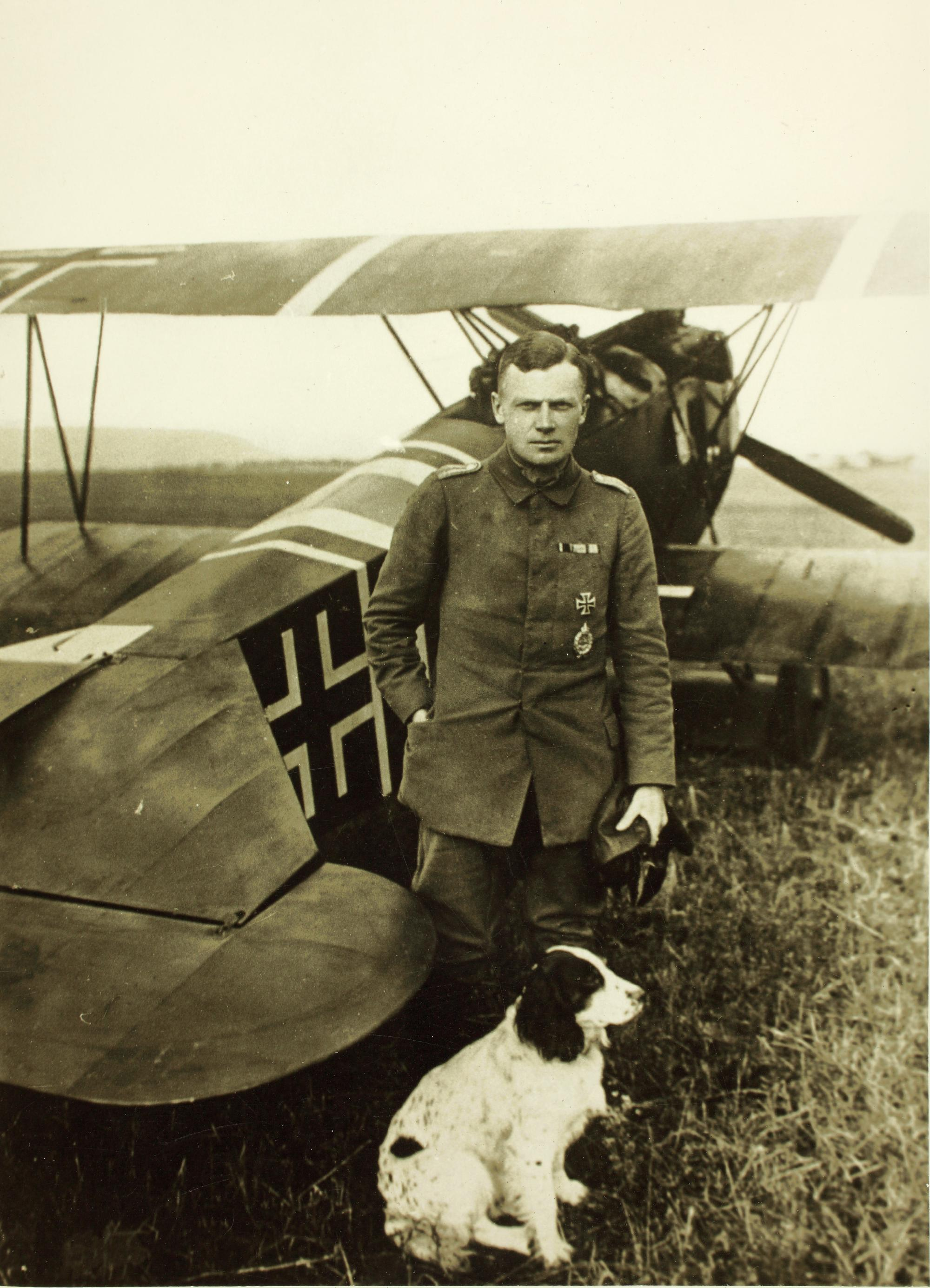 Catalog #: 10_0017308 Title: World War One German Aviator Oblt. Karl Bolle Date: 1914-1918 Additional Information: World War One German Aviator Oblt. Karl Bolle Tags: World War One German Aviator Oblt. Karl Bolle, World War One German Aviator Oblt. Karl Bolle, 1914-1918 Repository: San Diego Air and Space Museum Archive